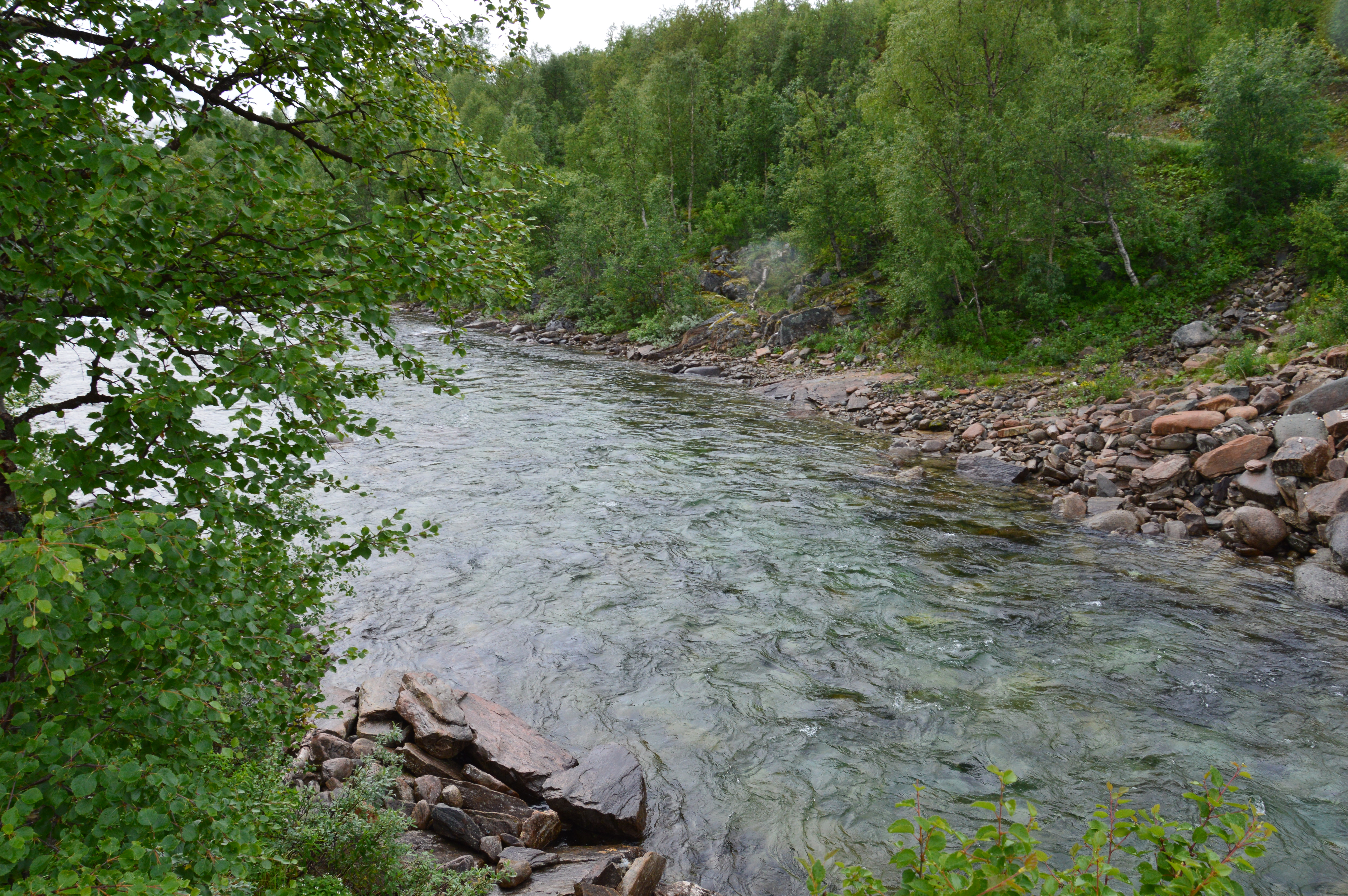 Gubbeltåga